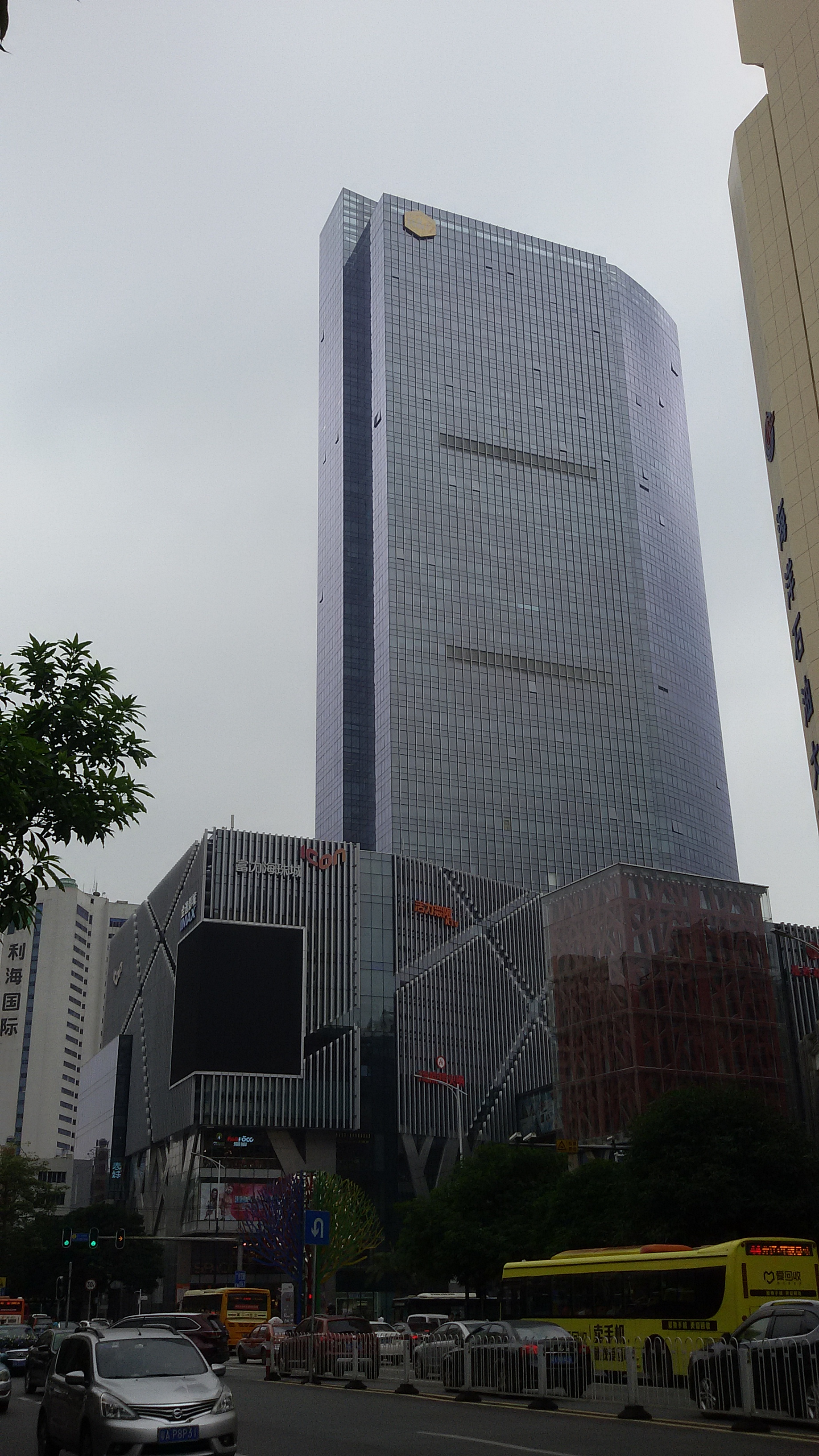 R&F Icon